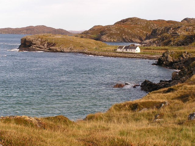 Clashnessie Bay. The map has the name Imirfada, though I must confess that I'm not sure if this is for the dwelling or the slight jutting headland that it is on.